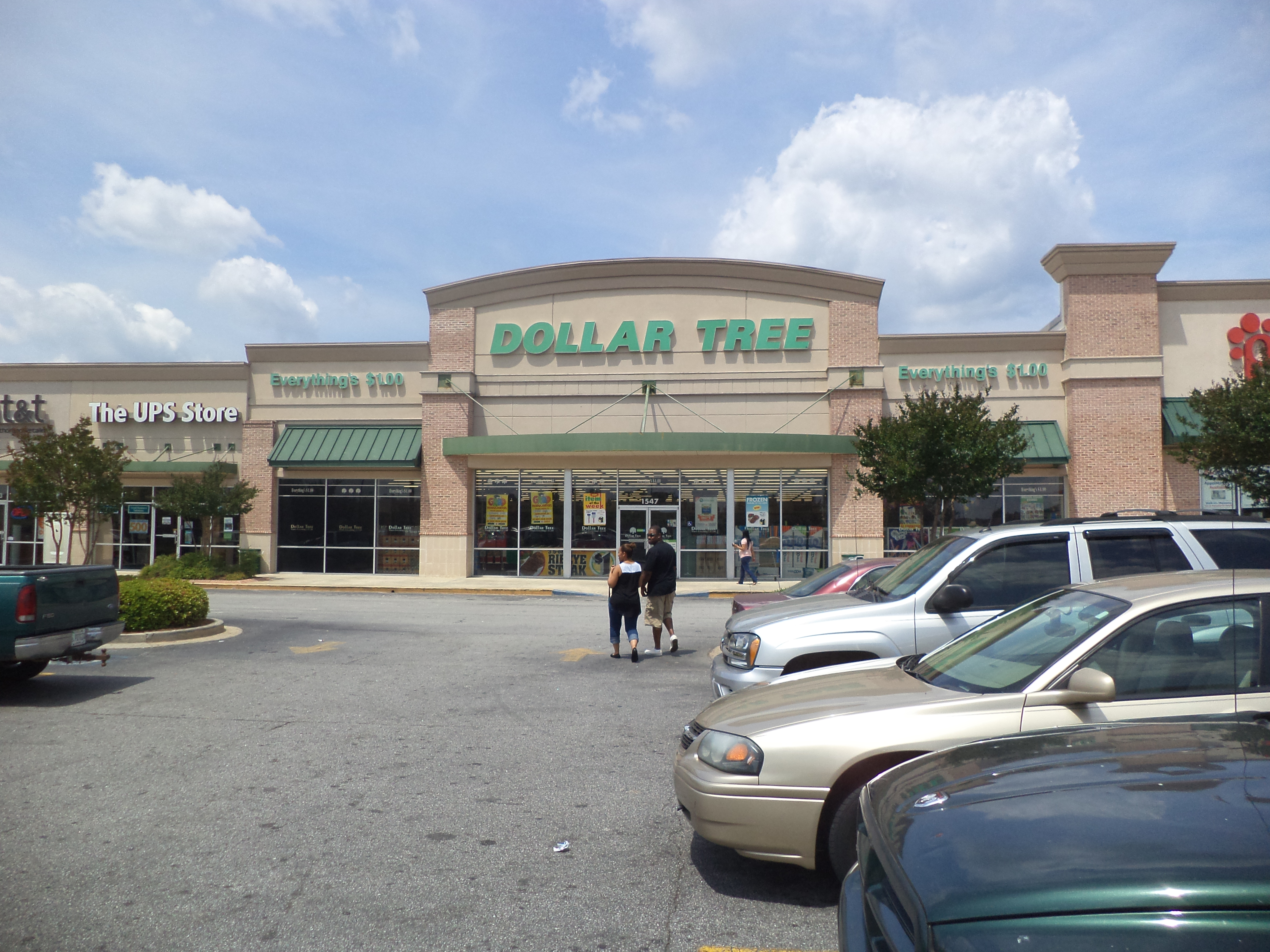 Dollar Tree, 1547 N Express Way, Griffin, Spalding County, Georgia